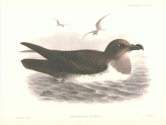 Plate 53 from Godman's 'Monograph of the Petrels.'